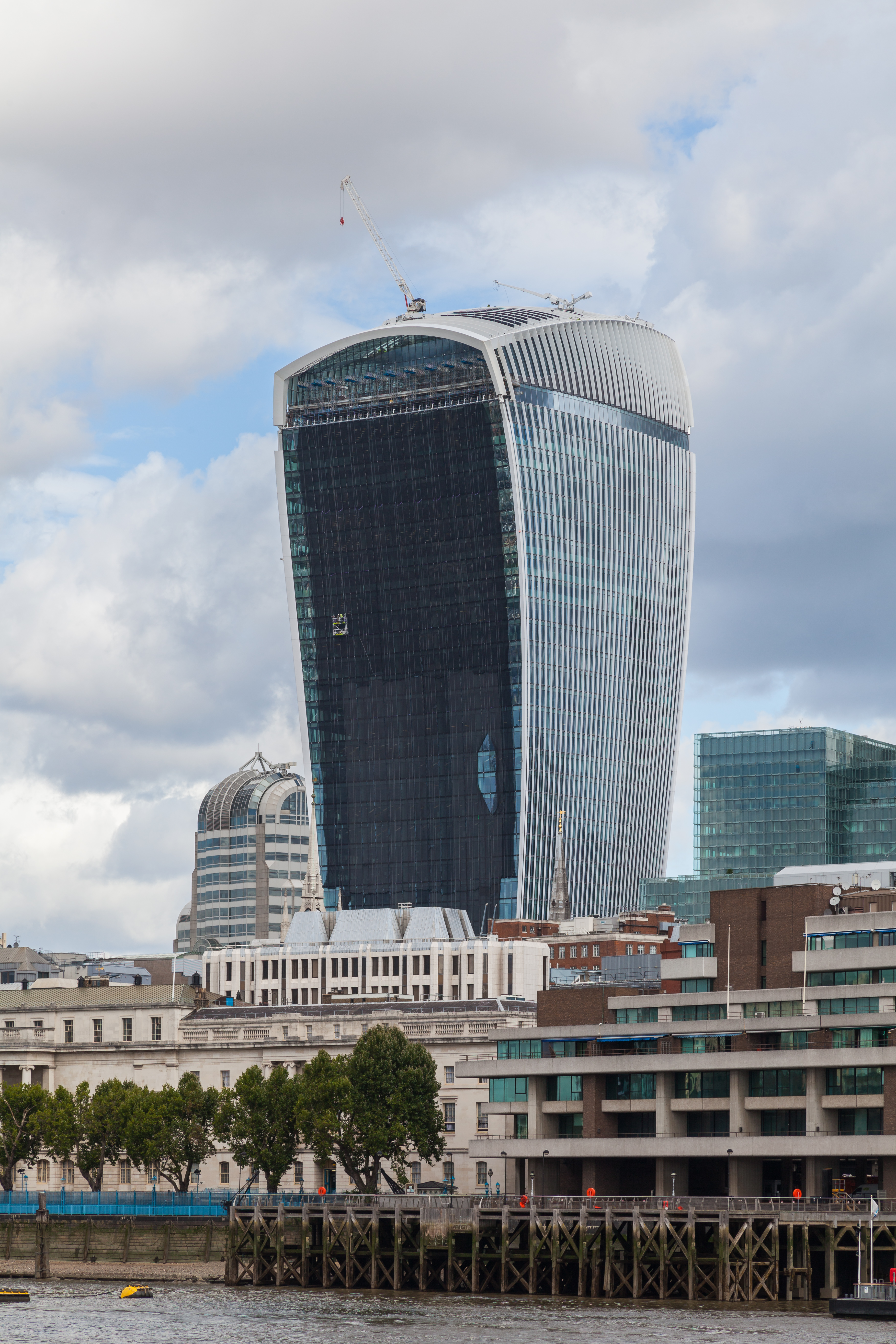 Walkie-Talkie, 20 Fenchurch Street London, England